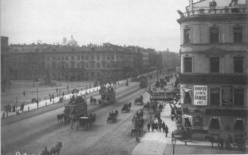 Saint Petersburg (Russia), Nevsky Prospekt. Nevsky prospect near Kazansky cathedral